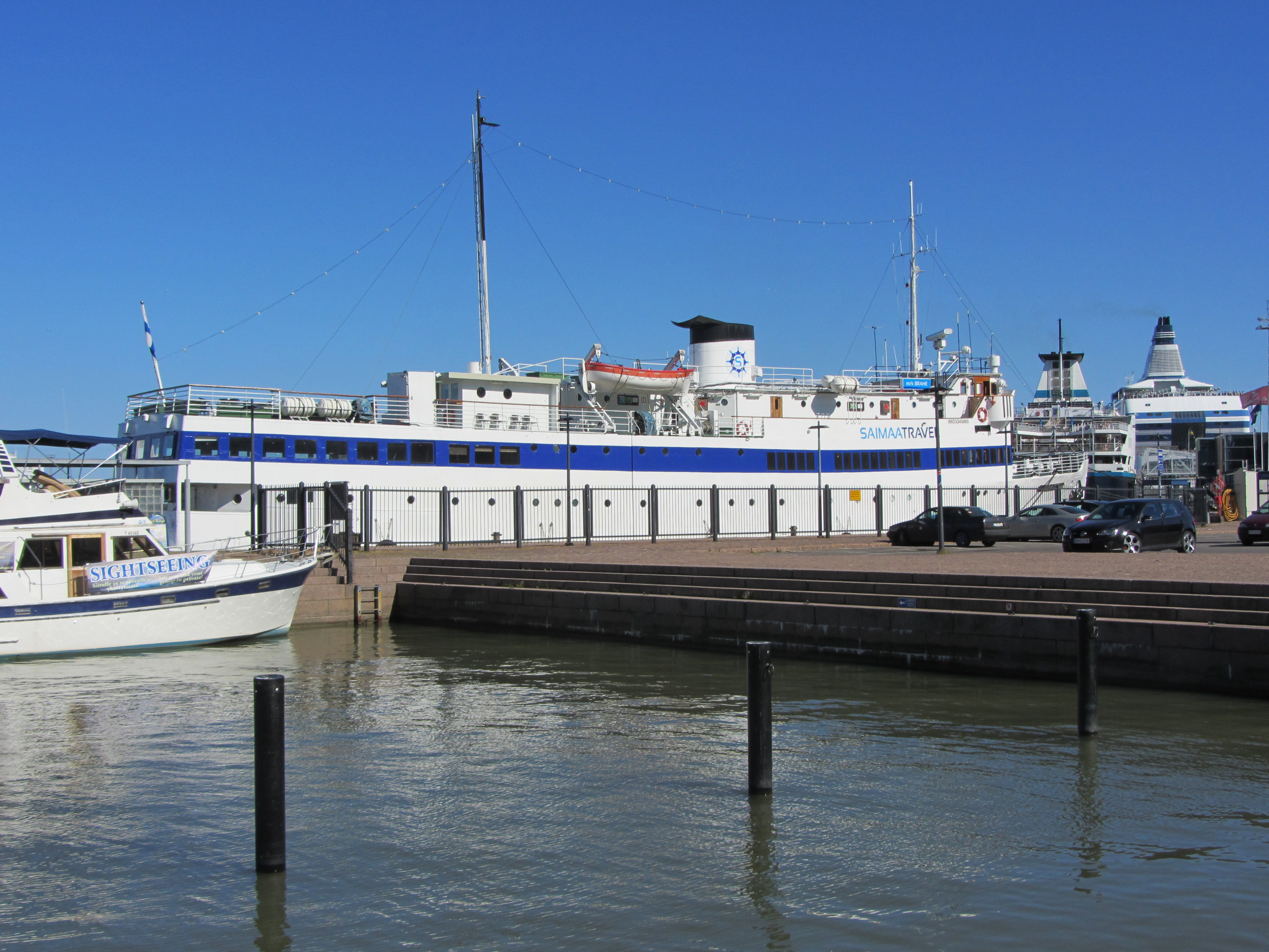 M/S Brahe, former M/S Kristina Brahe, former M/S Sunnhordland, former HMS Kilchrenan, former USS PCE-830 at Helsinki Harbour